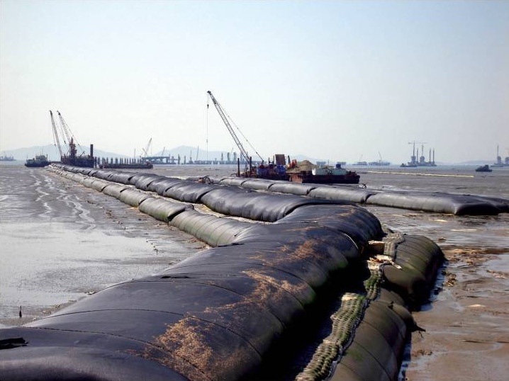 Geotextile tubes hyraulically filled with sand as reclamation dike unit.